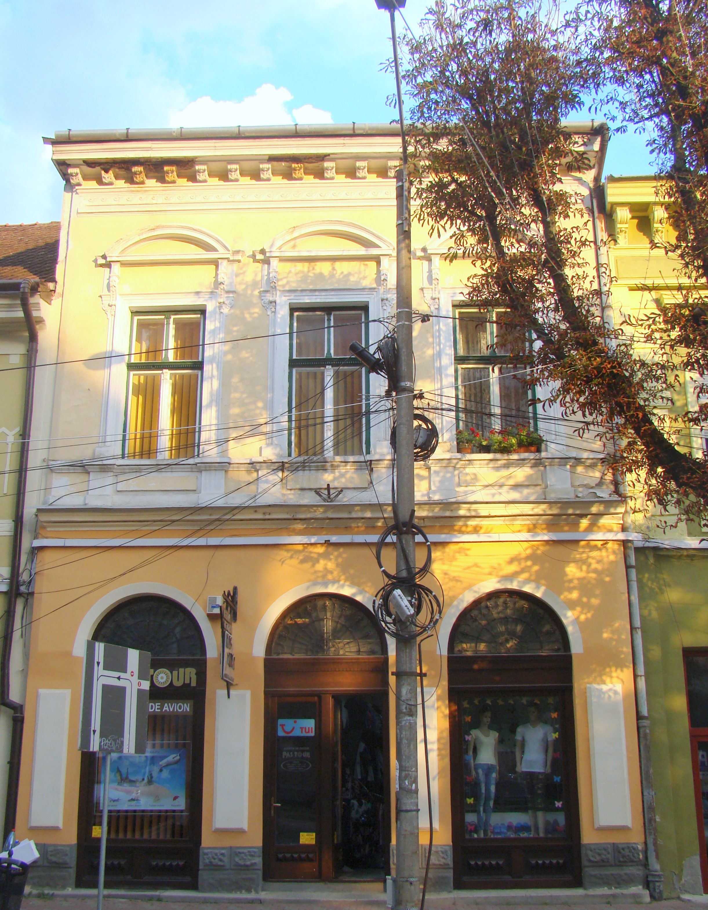 House, historic monument, in Bistrița, Piața Centrală 39